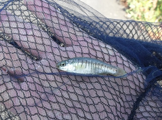 Female Aphanius fasciatus collected in brackish water in Grosseto province (Tuscany, Tyrrhenian slope of central Italy). Carefully released after photo. Photo by Massimiliano Marcelli.